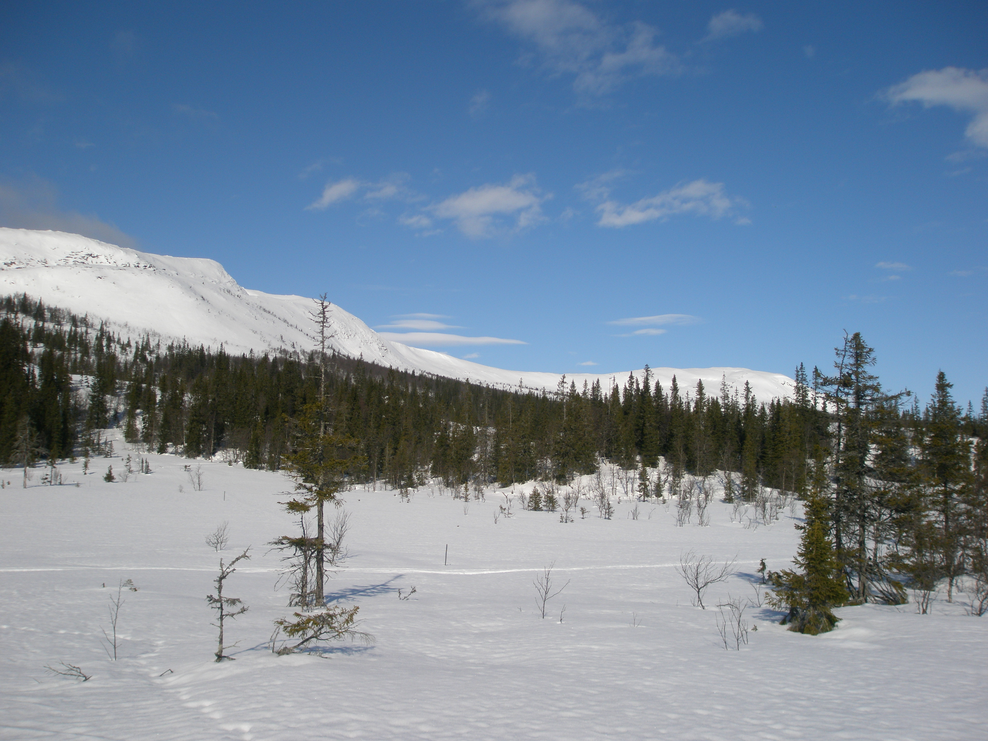 Oldklumpen, Oldfjällen mountains, Offerdal, Krokoms kommun, Jämtland, Sweden.